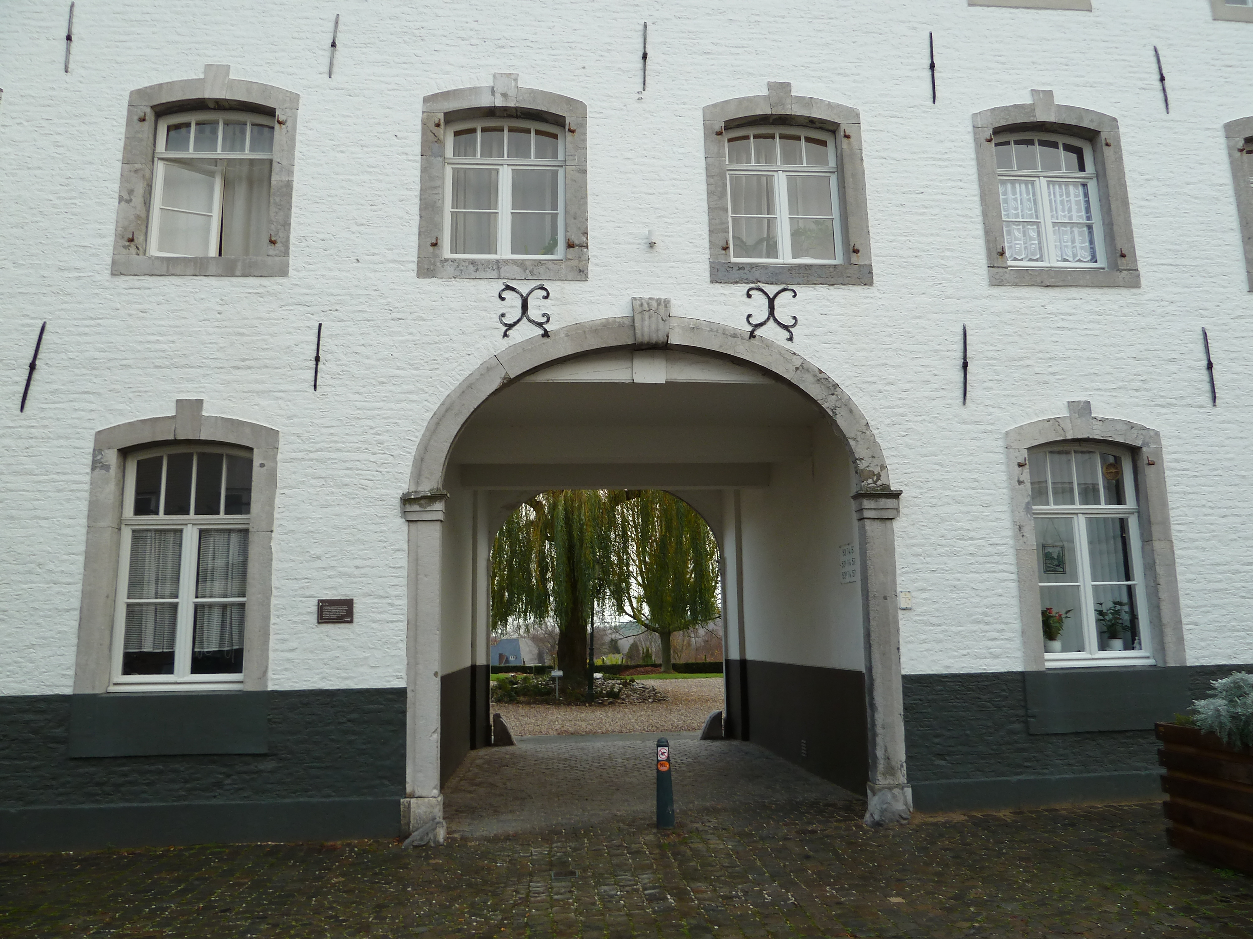 Tentstraat 53, Vaals, Limburg, the Netherlands